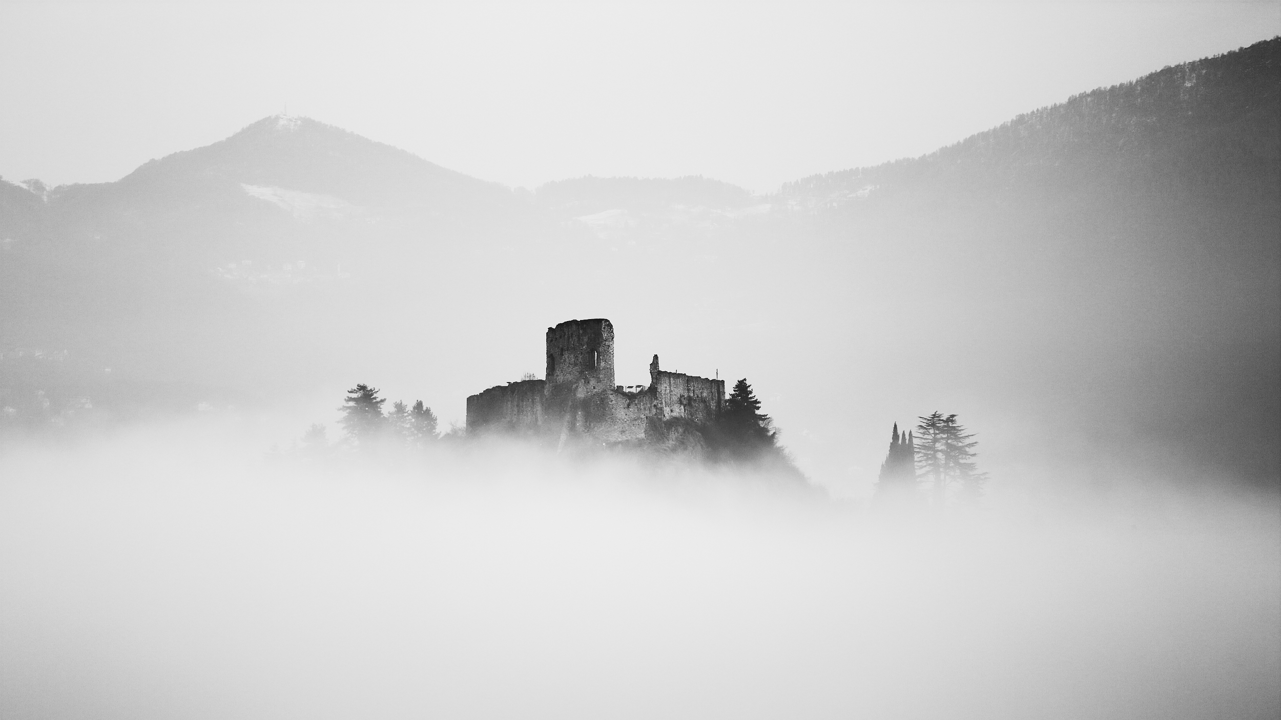 Castle of Avigliana, Piedmont